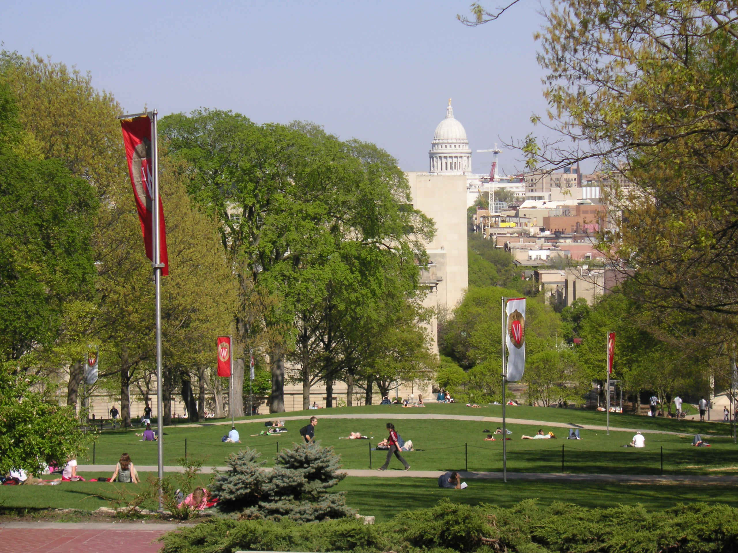 Bascom Hill campus of the University of Wisconsin-Madison with the Wisconsin State Capitol in the back ground